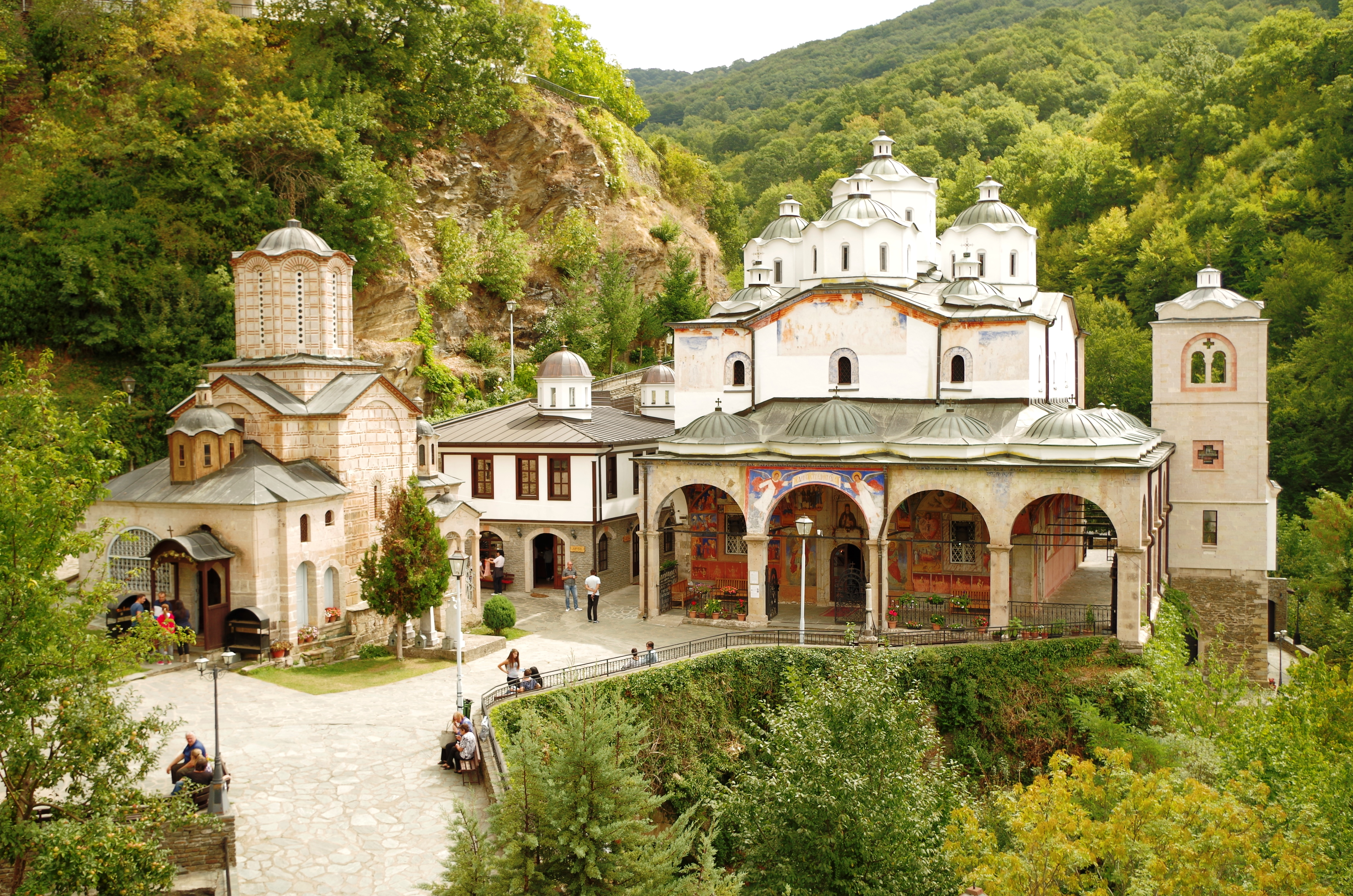 St. Joachim of Osogovo Church in Kriva Palanka, Macedonia